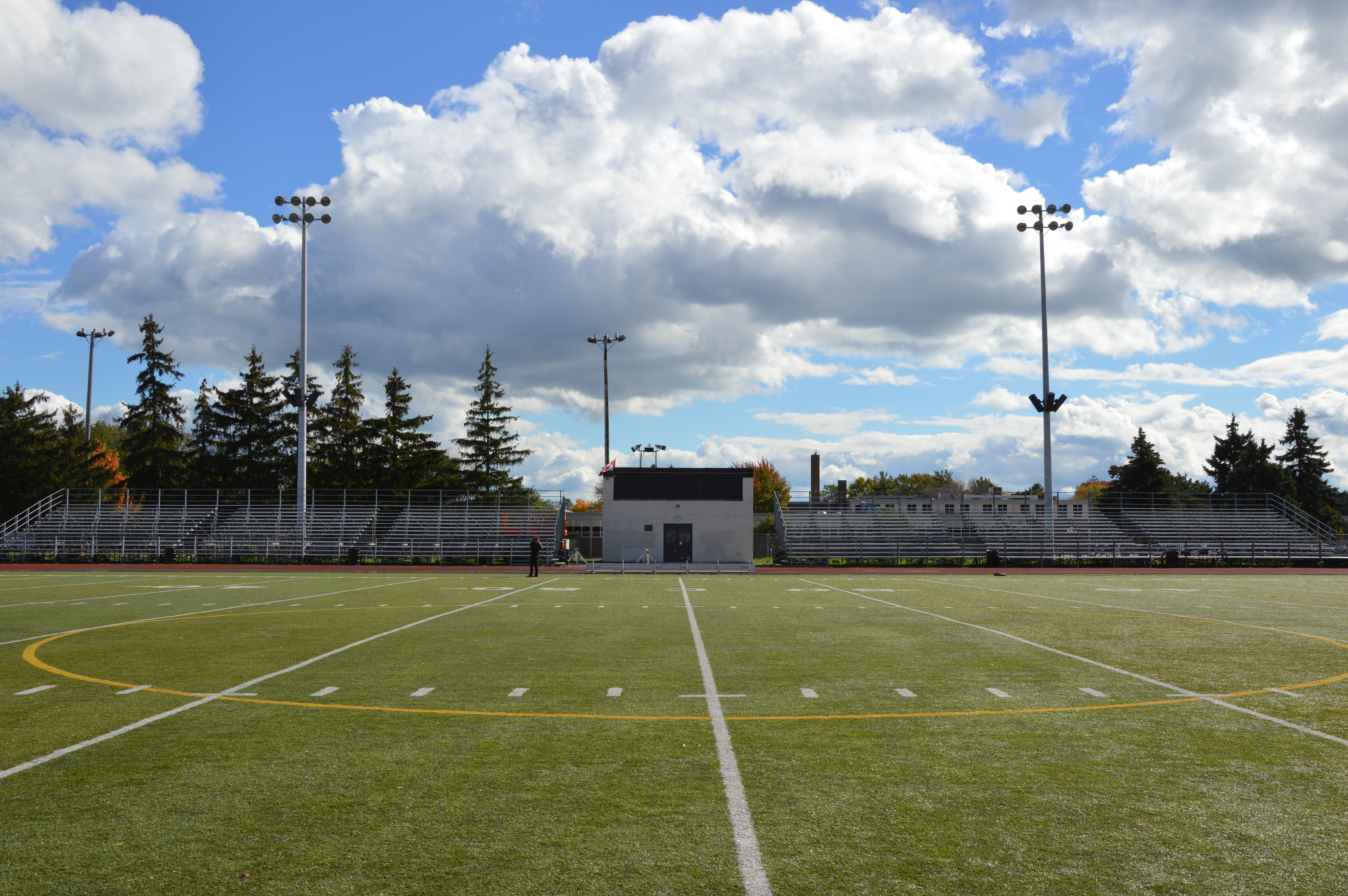 Photo of stands at Nelson Stadium